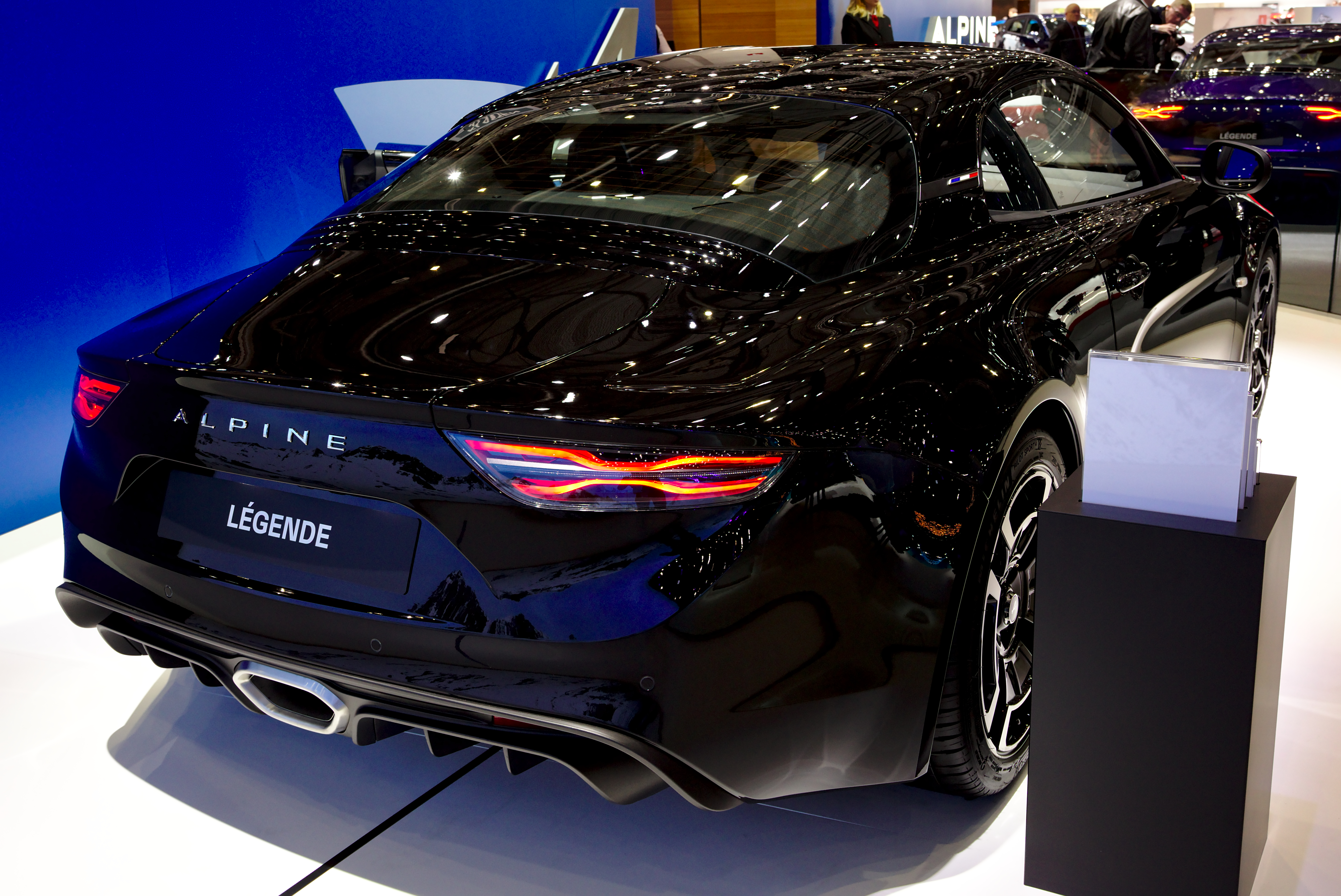 Alpine A110 Légende at Geneva Motorshow 2018